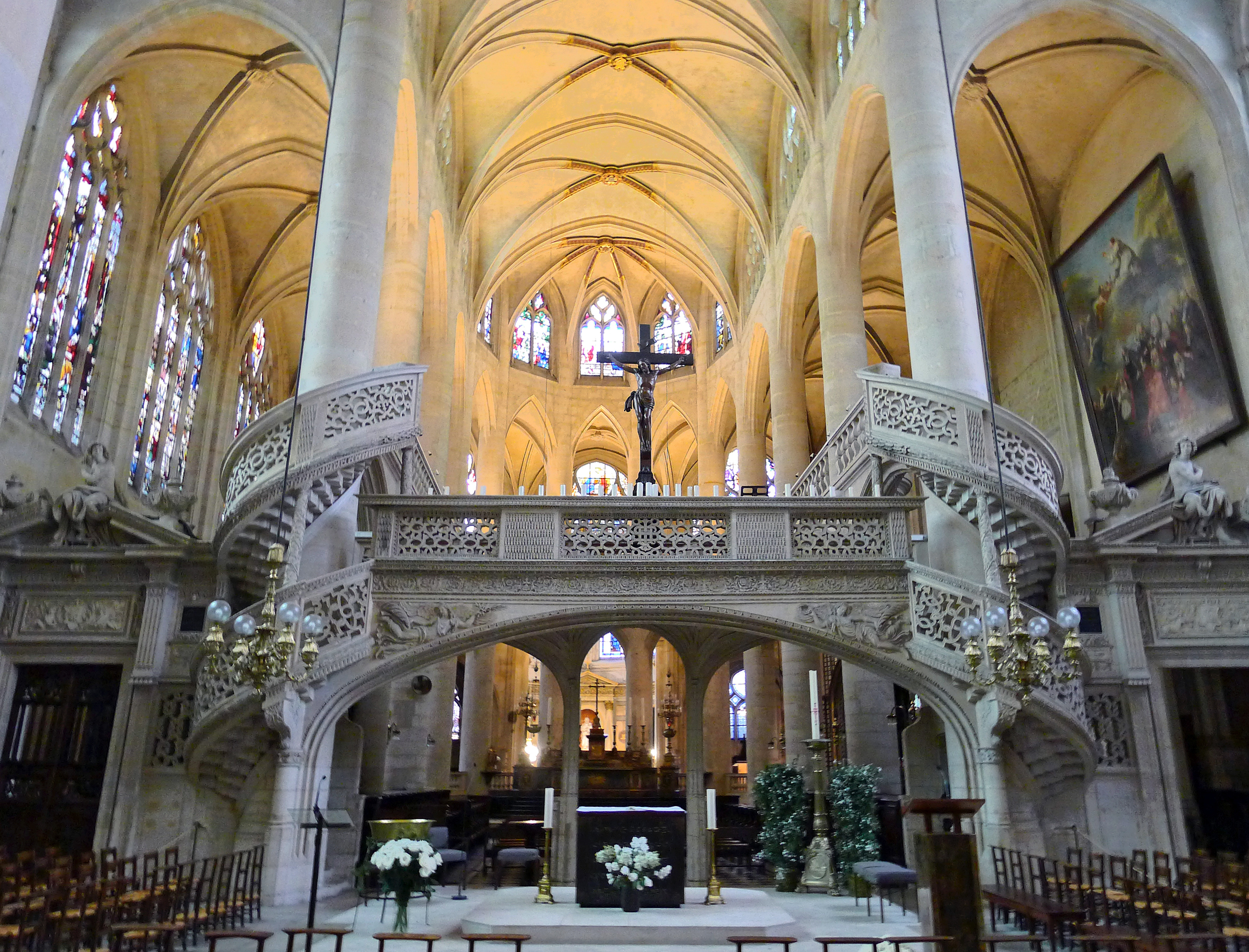 Jubé (altar screen) at Saint-Étienne-du-Mont, Paris, ca. 1530.